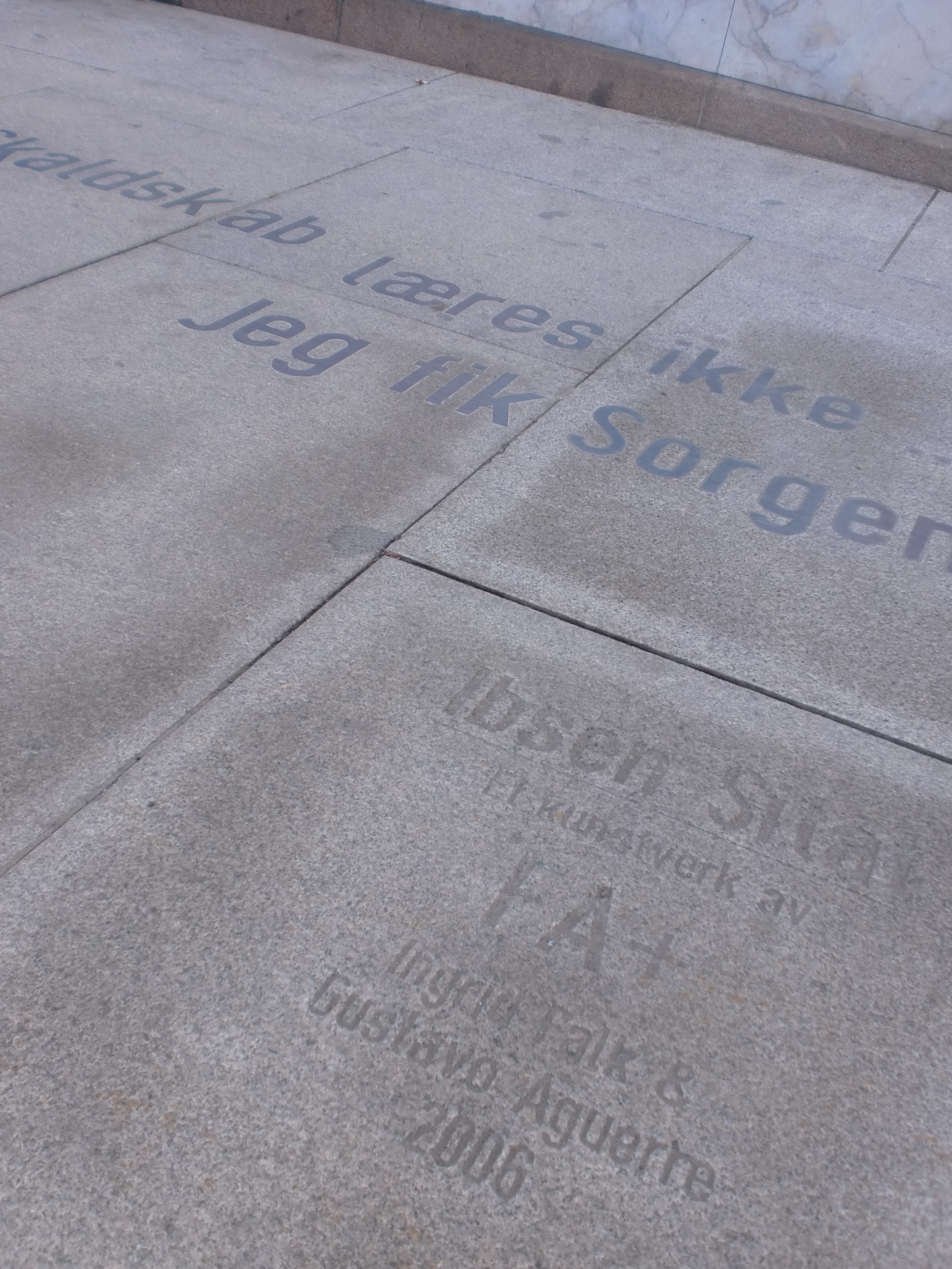 A small part of the artwork «Ibsen Sitat» or Ibsen Quotes, where 69 quotations from Henrik Ibsens's work are written on the pavements in downtown Oslo. Artists are the group FA+.